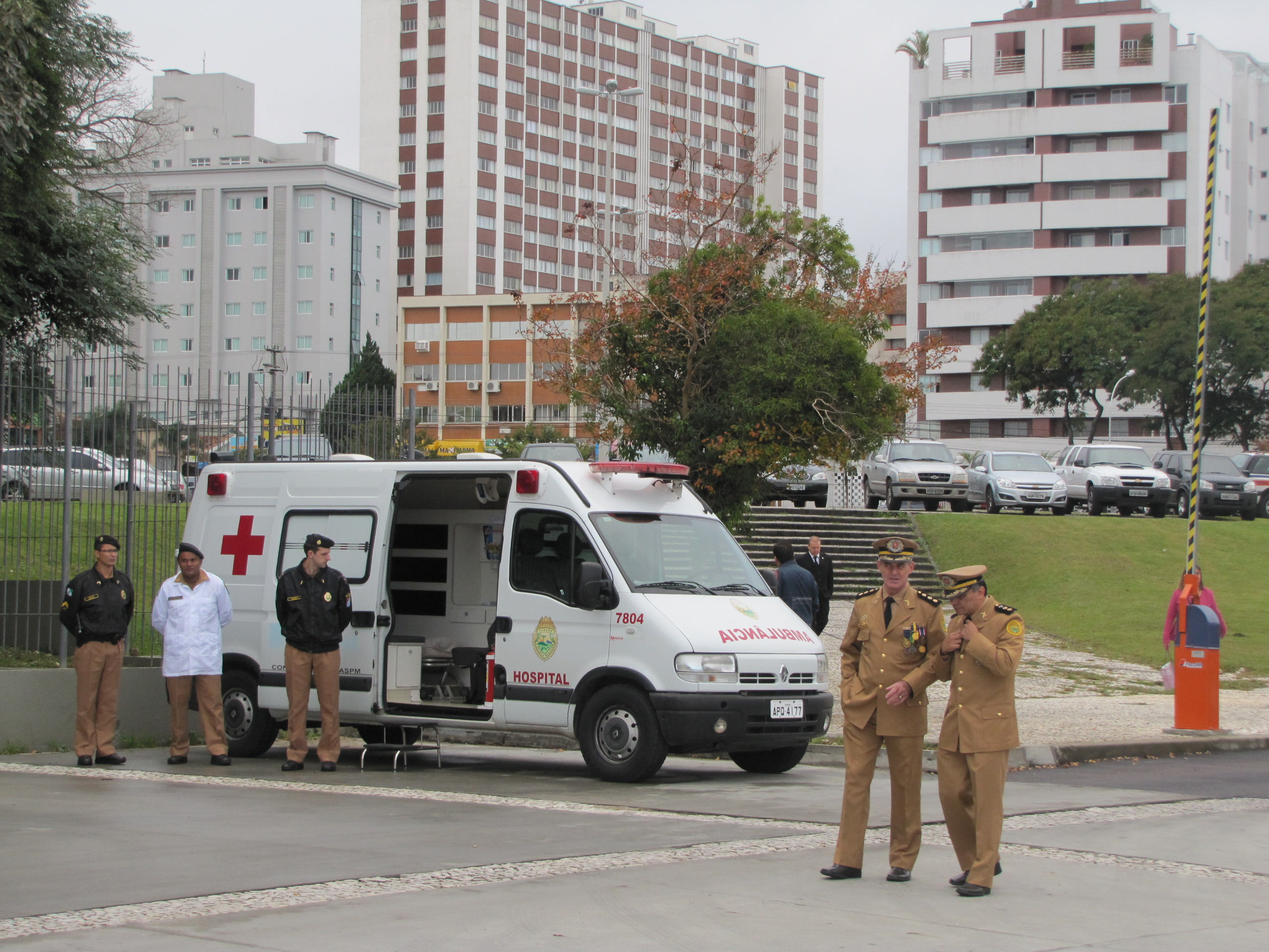 Renault Master II ambulance (#7804) in Paraná State, Brazil.